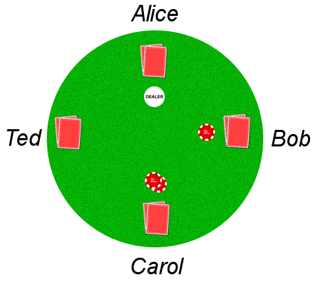 An illustration for the example hand in texas hold 'em article on the english wikipedia